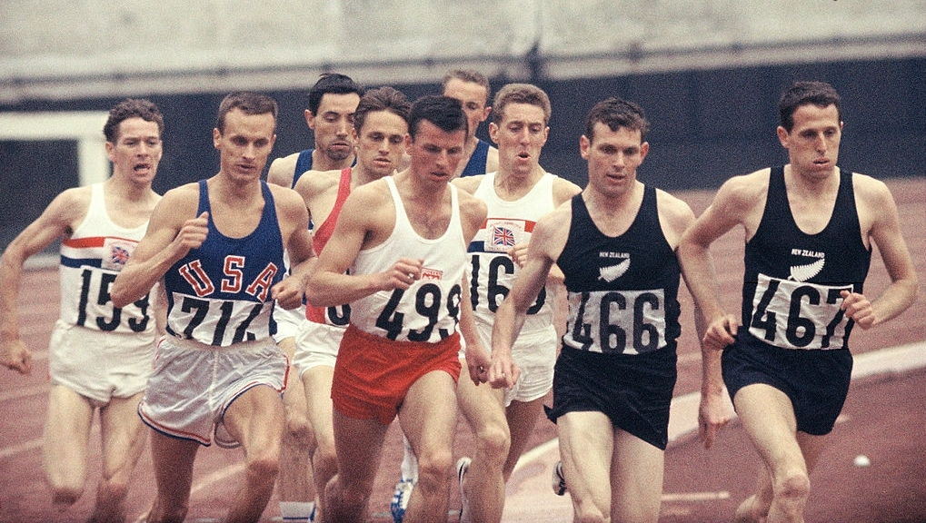 Left-right: Alan Simpson, Dyrol Burleson, Josef Odložil, John Whetton, Peter Snell, John Davies running the 1,500 m final at the National Stadium during the Tokyo Olympic on October 21, 1964 in Tokyo, Japan.